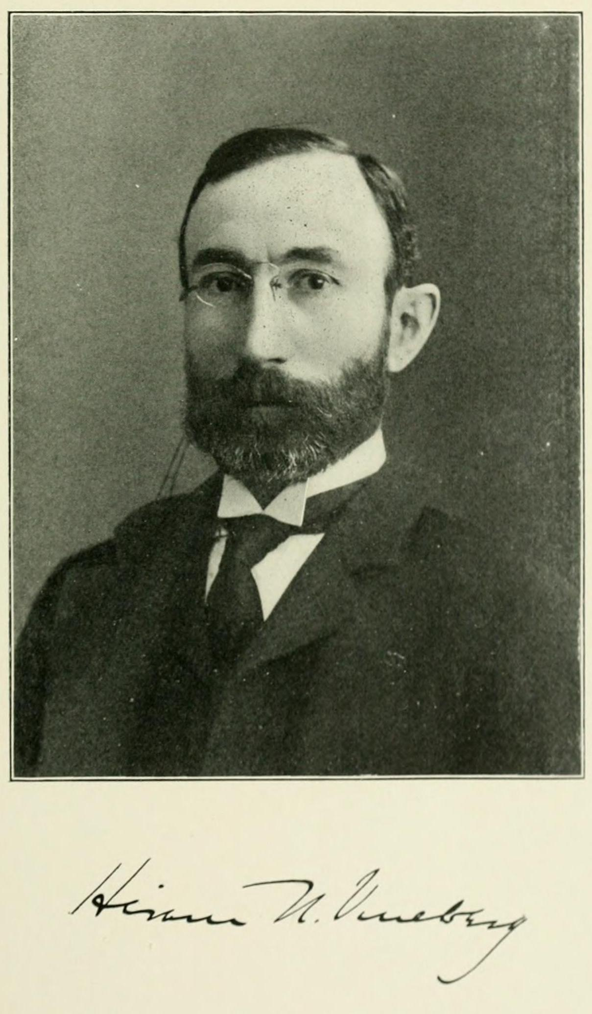 Hiram Nahum Vineberg